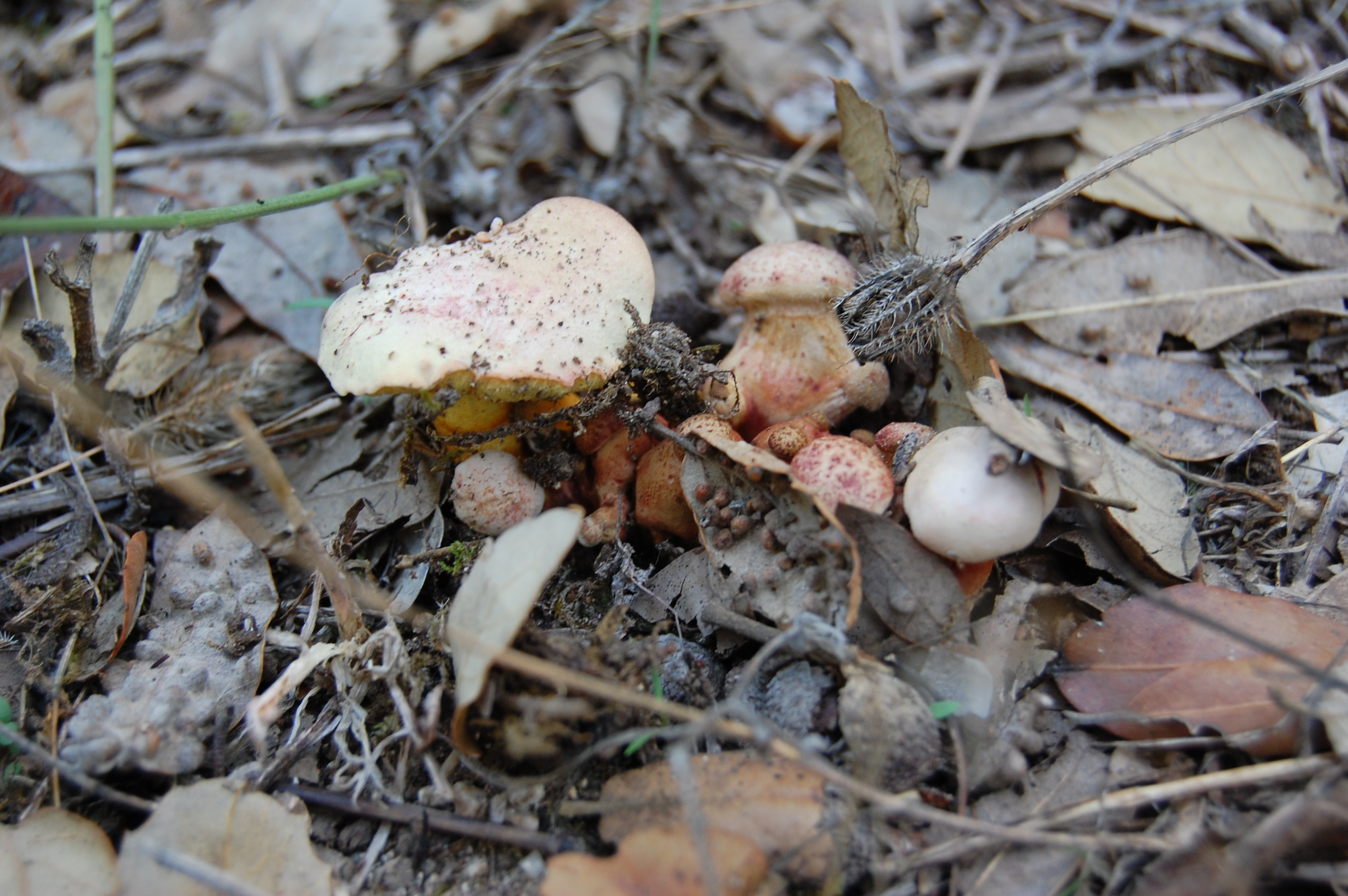 Fruit bodies of the bolete fungus Pulchroboletus roseoalbidus (Alessio & Littini) Gelardi, Vizzini & Simonini. Photographed in Sibiri, Gonnosfanadiga , Sardinia, Italy.